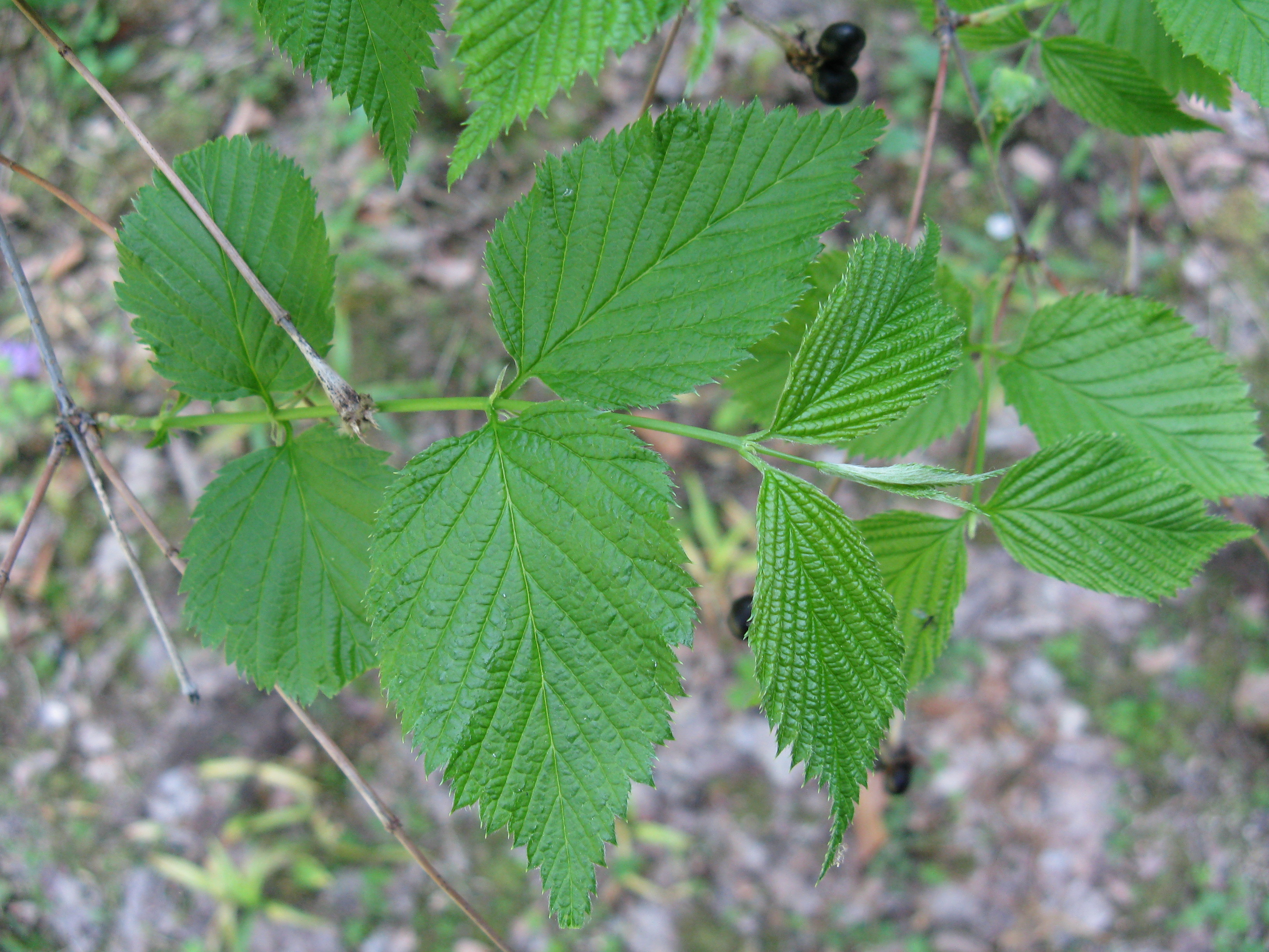 Scientific name Rhodotypos scandens